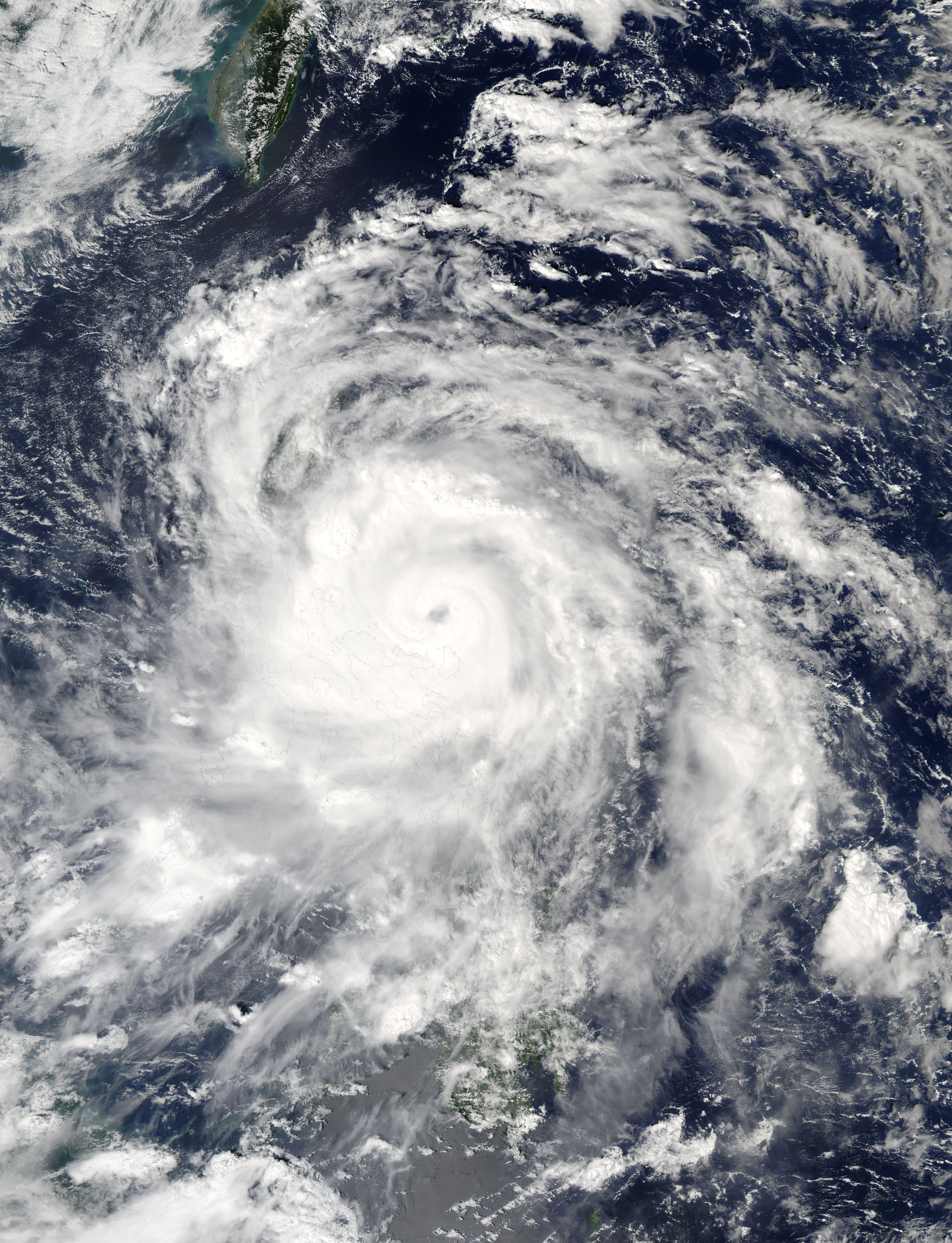 Typhoon Sarika (24W) over the Philippines